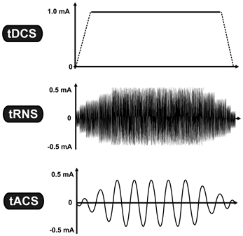 Transcranial electrical stimulation is a specific subgroup of non-invasive brain stimulation techniques, which is based on the application of low-intensity electrical current. While tDCS uses constant current intensity, tRNS and tACS use oscillating current. The vertical axis represents the current intensity in milliamp (mA), while the horizontal axis illustrates the time-course. Abbreviations: tDCS, transcranial direct current stimulation; tRNS, transcranial random noise stimulation; tACS, transcranial alternating current stimulation.